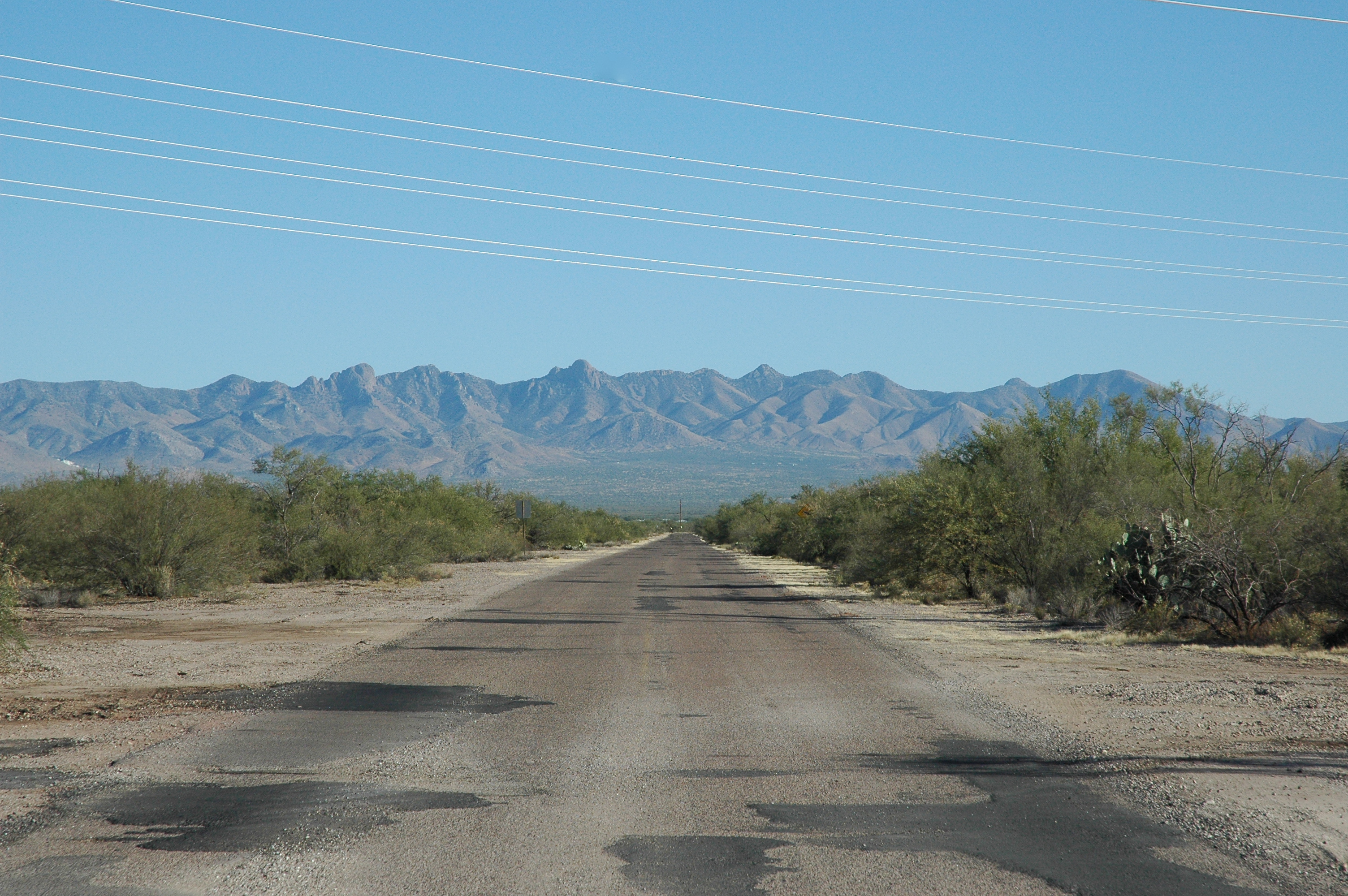 A view of the old Sahuarita Airstrip, built in 1942. Long since decommissioned, the former airstrip is now a road leading to Sahuarita Park, the location of the former control towers. This photo is a South Eastern view of the roadway, with the Santa Rita Mountains in the background.